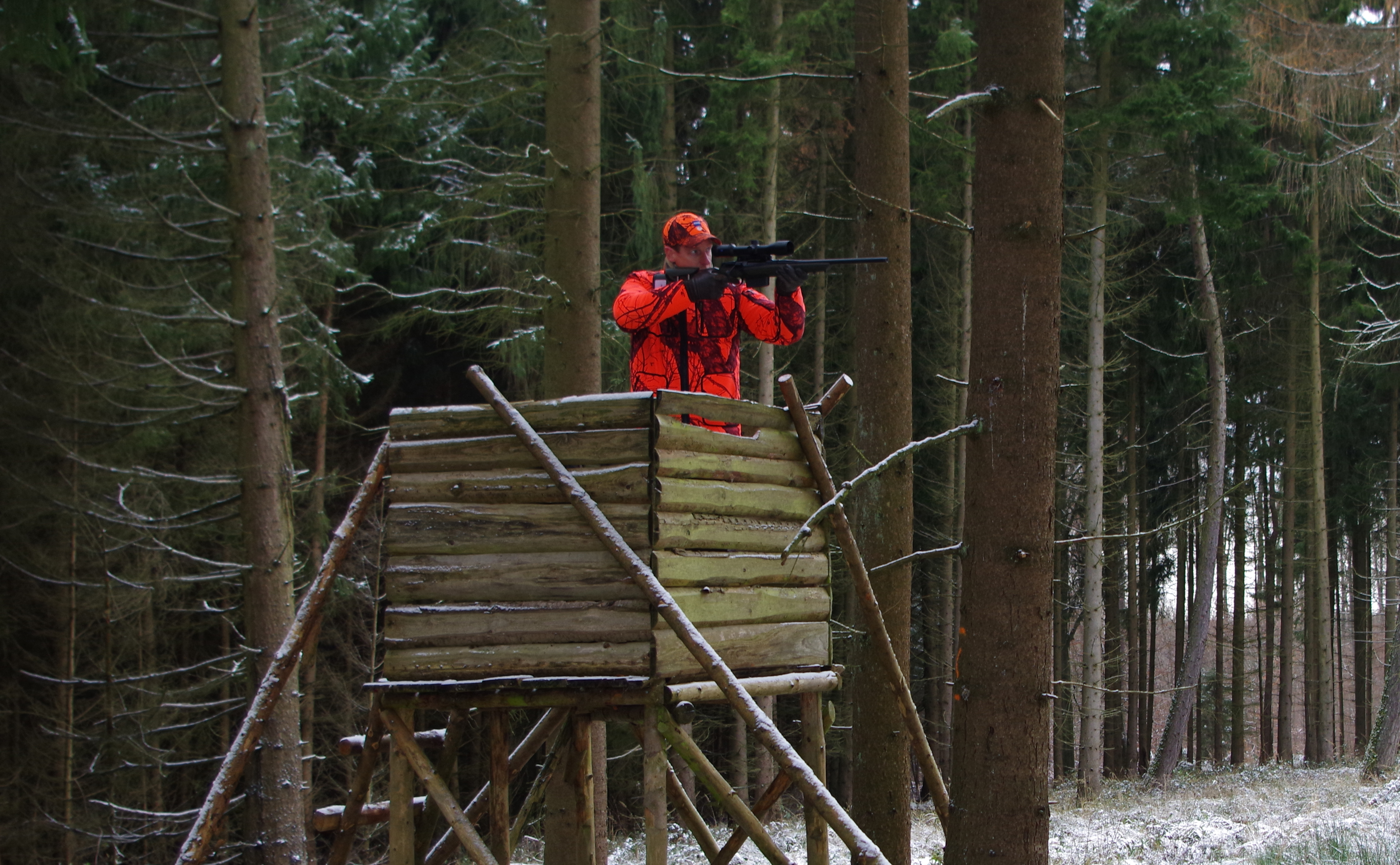 Paul Childerley during a driven hunt on the Solms-Laubach forest estate (Forstbetrieb Solms-Laubach) near Laubach Castle in Germany using a Merkel Helix in .30-06 Springfield with a Zeiss V6 rifle scope